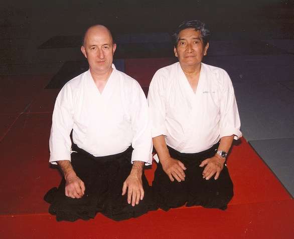 Senseis Alan Ruddock & Henry Kono at Galway Summer School 1997.They re-connected after 30 years having trained under O Sensei in the 60s in Tokyo. Henry is a proponent of understanding yin & yang as it applies to Aikido.